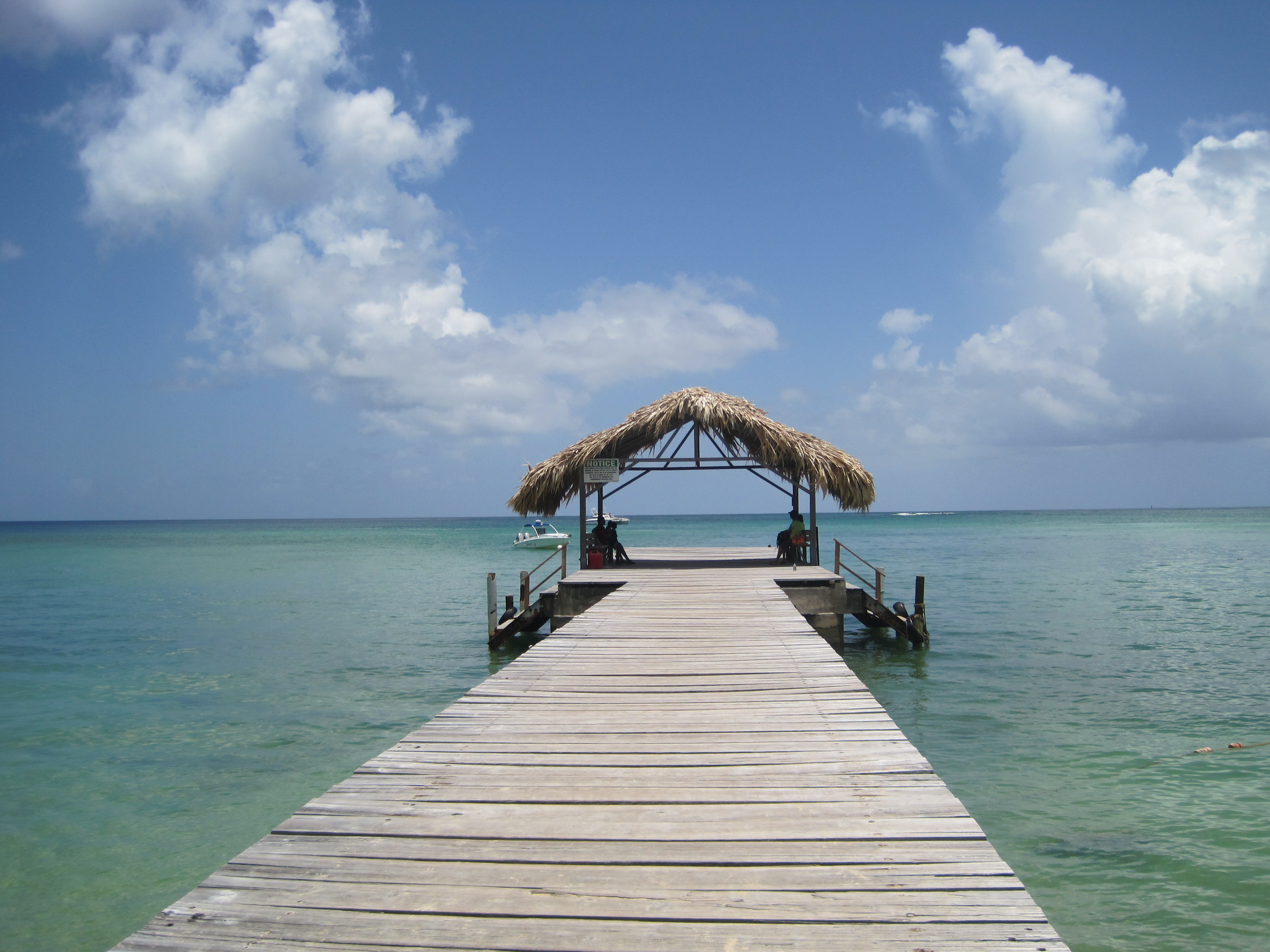 Pigeon Point jetty, Tobago, Trinidad and Tobago, West Indies, Caribbean.